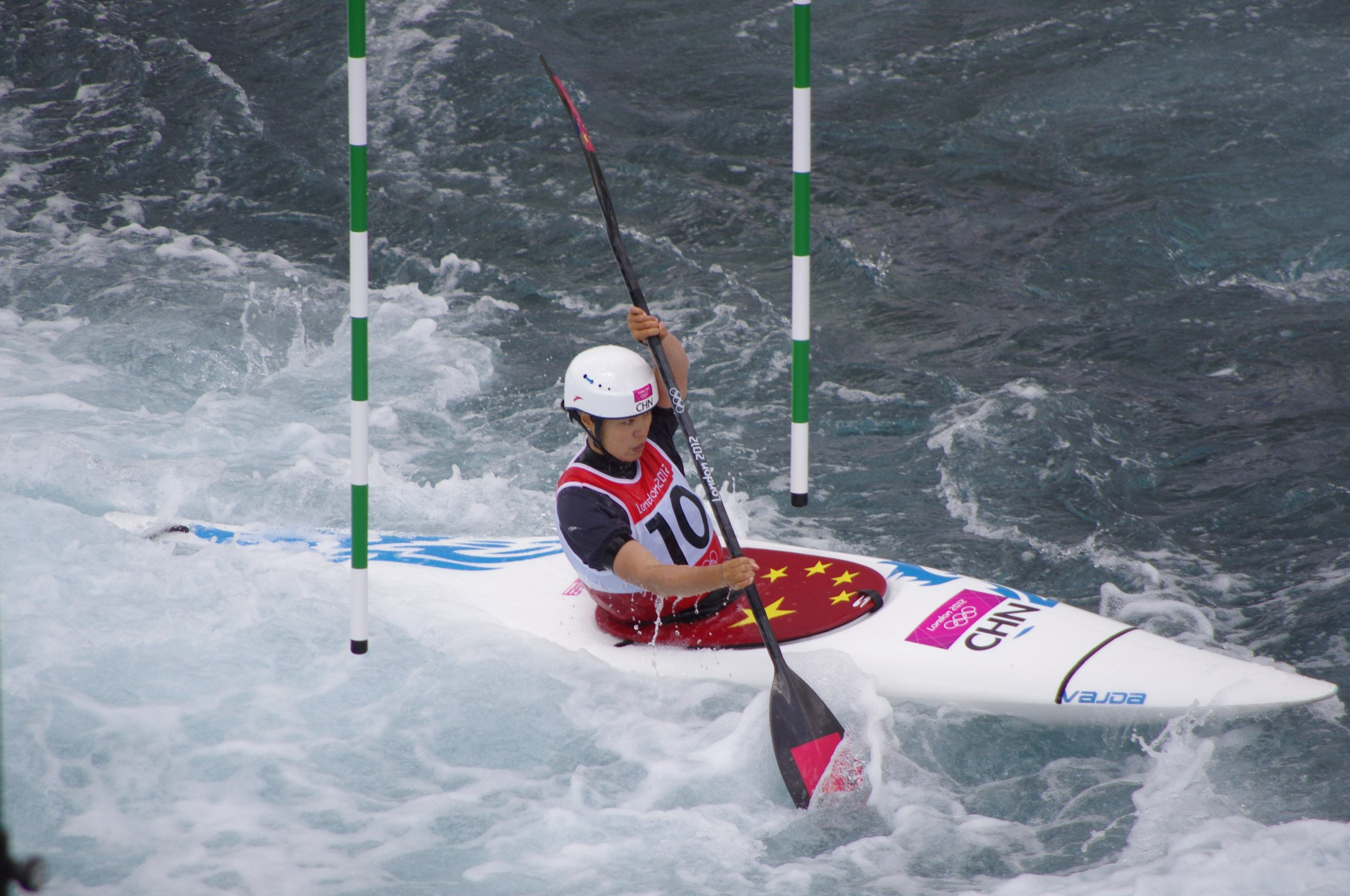 Canoeing at the 2012 Summer Olympics – Women's slalom K-1 Li Jingjing (CHN)